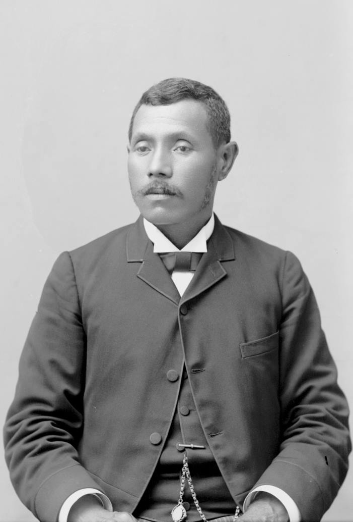 Joseph Nawahi (1842–1896) was a native Hawaiian legislator, lawyer, newspaper publisher, and painter.